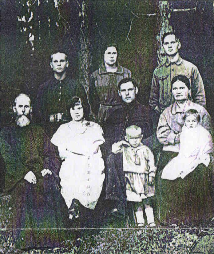 В первом ряду (слева направо): отец Николай, Зоя, ее муж Сергей, у его ног пятилетняя дочь Руфина, Капитолина Андреевна, на коленях у нее Николай, брат Руфины. Во втором ряду стоят (слева направо) дети отца Николая — Алексей, Юлия, Владимир. Сделано в 1925 году в с. Касимово Пермской области.